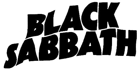 Black Sabbath logo